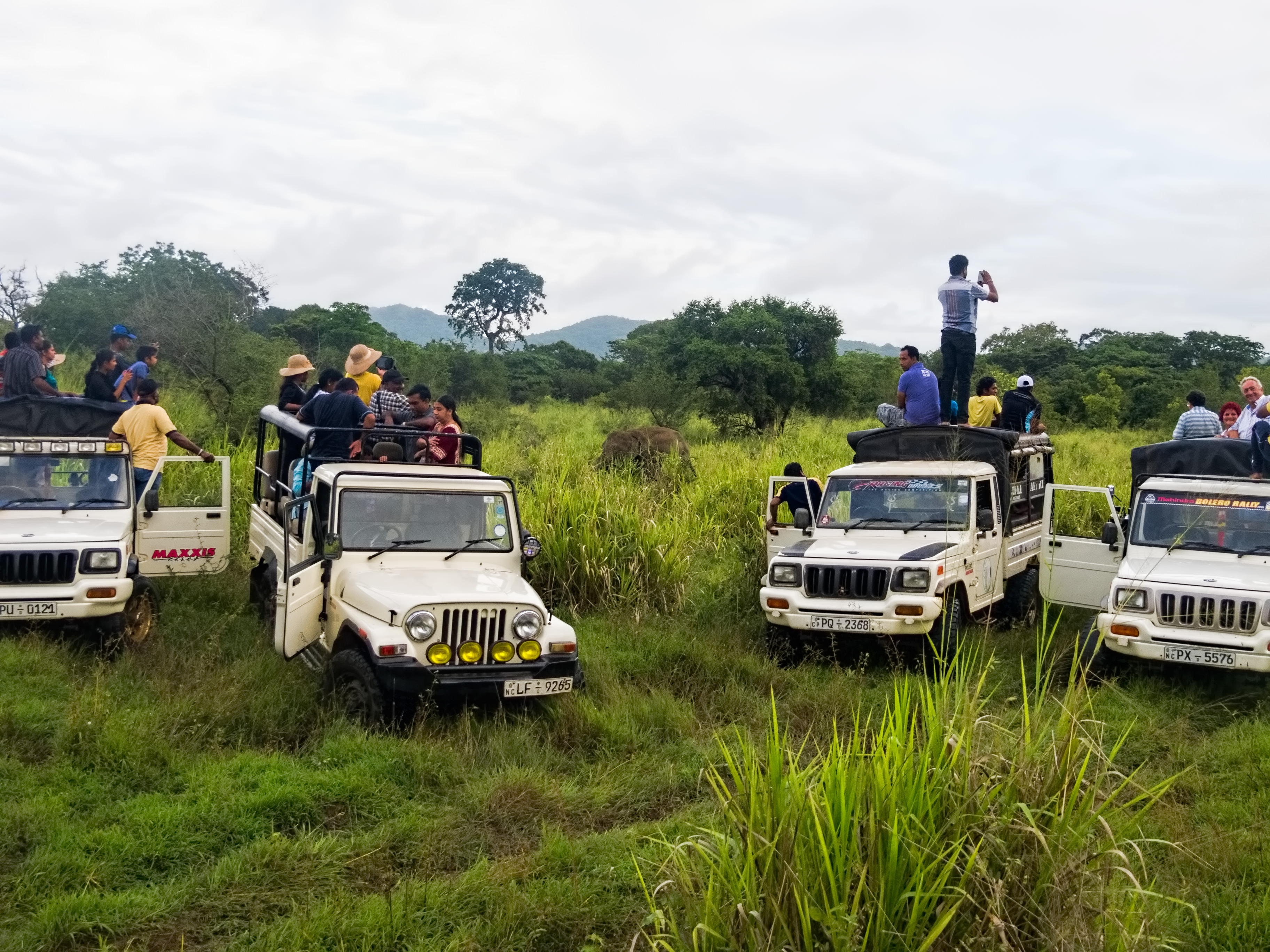 Tourists viewing elephants in Hurulu Eco Park. Hurulu Eco (for ecological) Park was carved out at the edge of the Hurulu Forest Reserve, a designated biosphere reserve (in 1977) representing Sri Lanka dry-zone dry evergreen forests. It is an important habitat of the Sri Lankan elephant. There are other protected areas around the reserve that provide additional range for the migratory elephants without encroaching on civilization. On Google Earth: Hurulu Eco Park 8° 7'16.41"N, 80°48'12.97"E